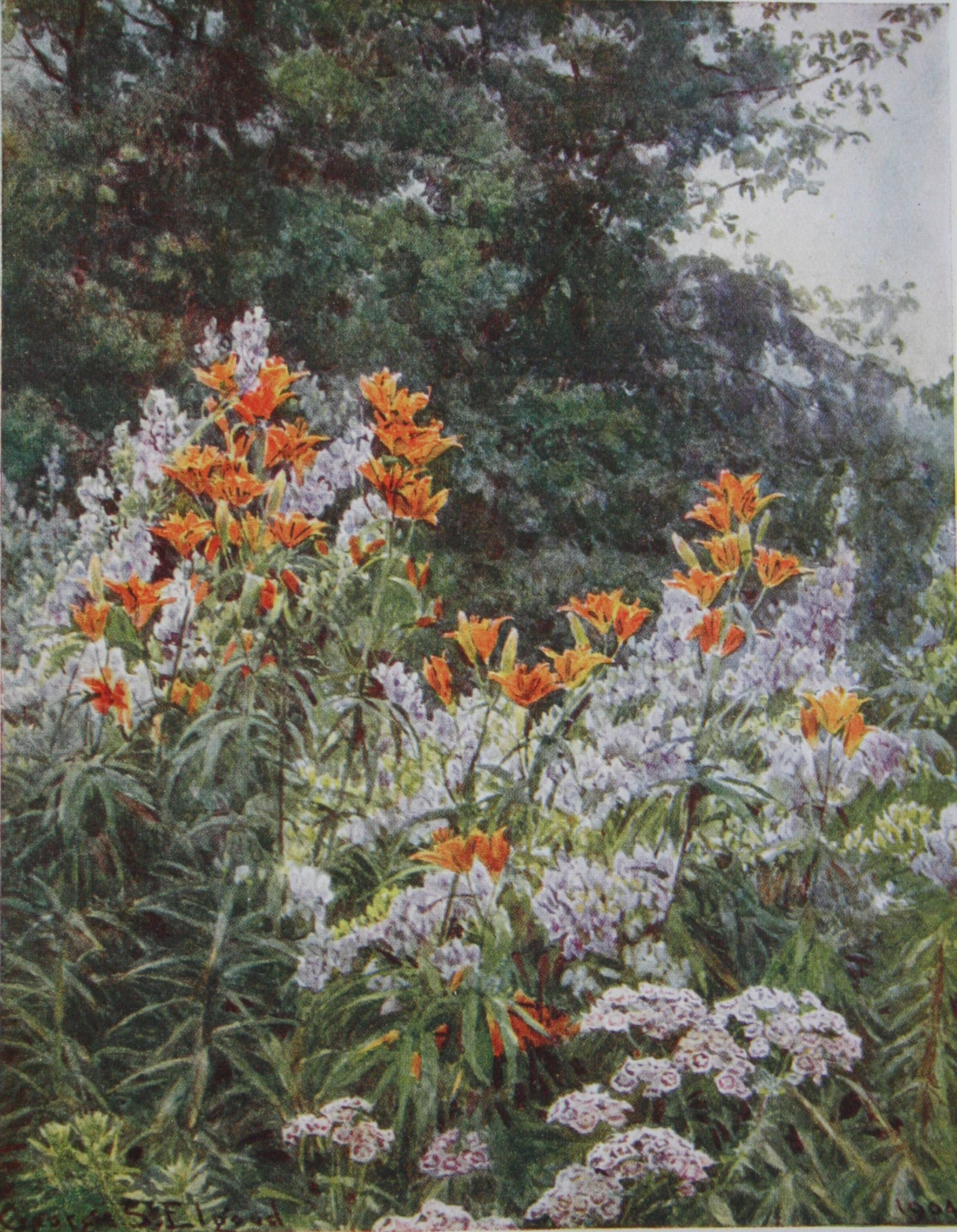 Colour plate from "The Garden That I Love", painted by George Samuel Elgood (1851 – 1943) "Orange Lily and Monkshood"